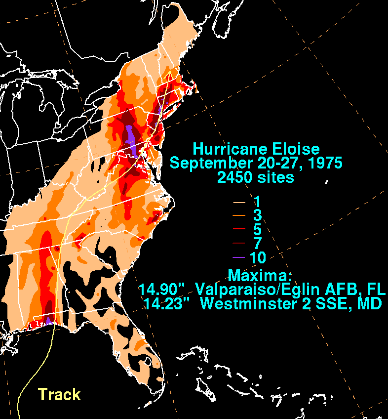 Storm total rainfall map of Hurricane Eloise during September 1975.